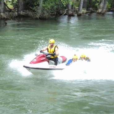 The Boise Fire Department runs its monthly swiftwater rescue drills on the Boise River, here running fast, cold and high with late spring snow melt.